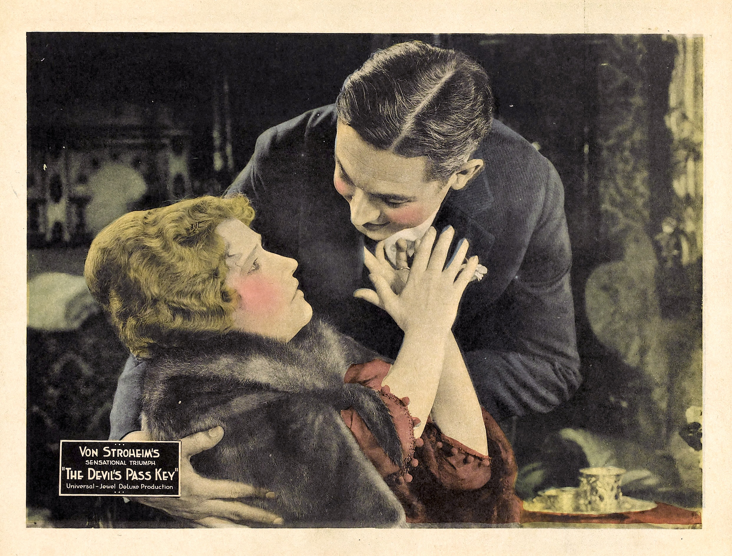 The Devil's Pass Key (or The Devil's Passkey) was a 1920 American silent drama film directed by Erich von Stroheim. This is a contemporary lobby card.